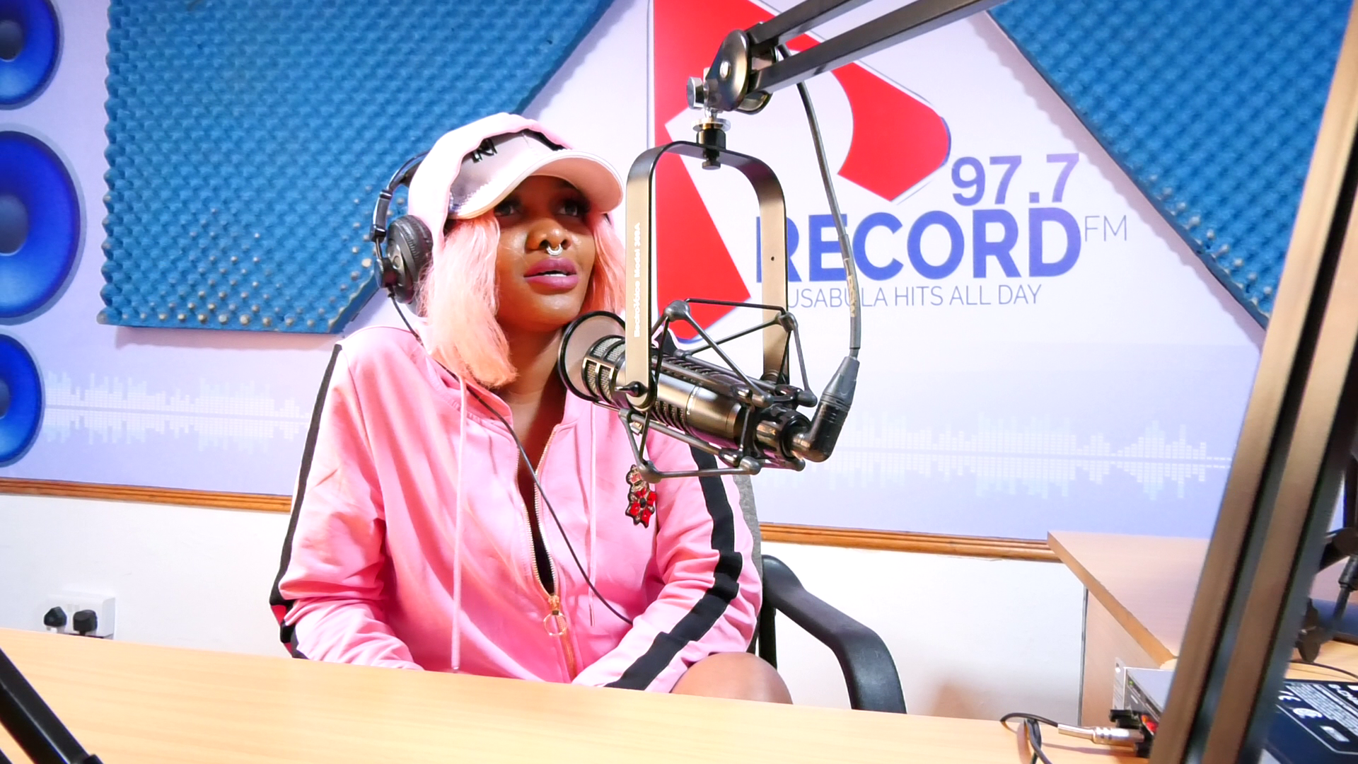 Pia Pounds At 97.7 Record FM